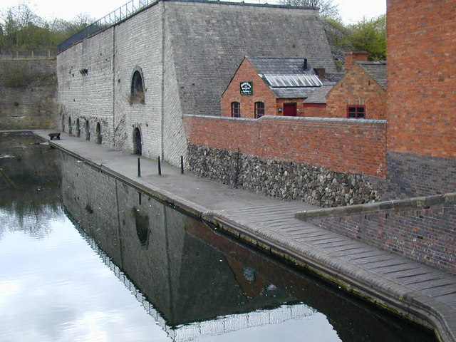 Black Country Museum